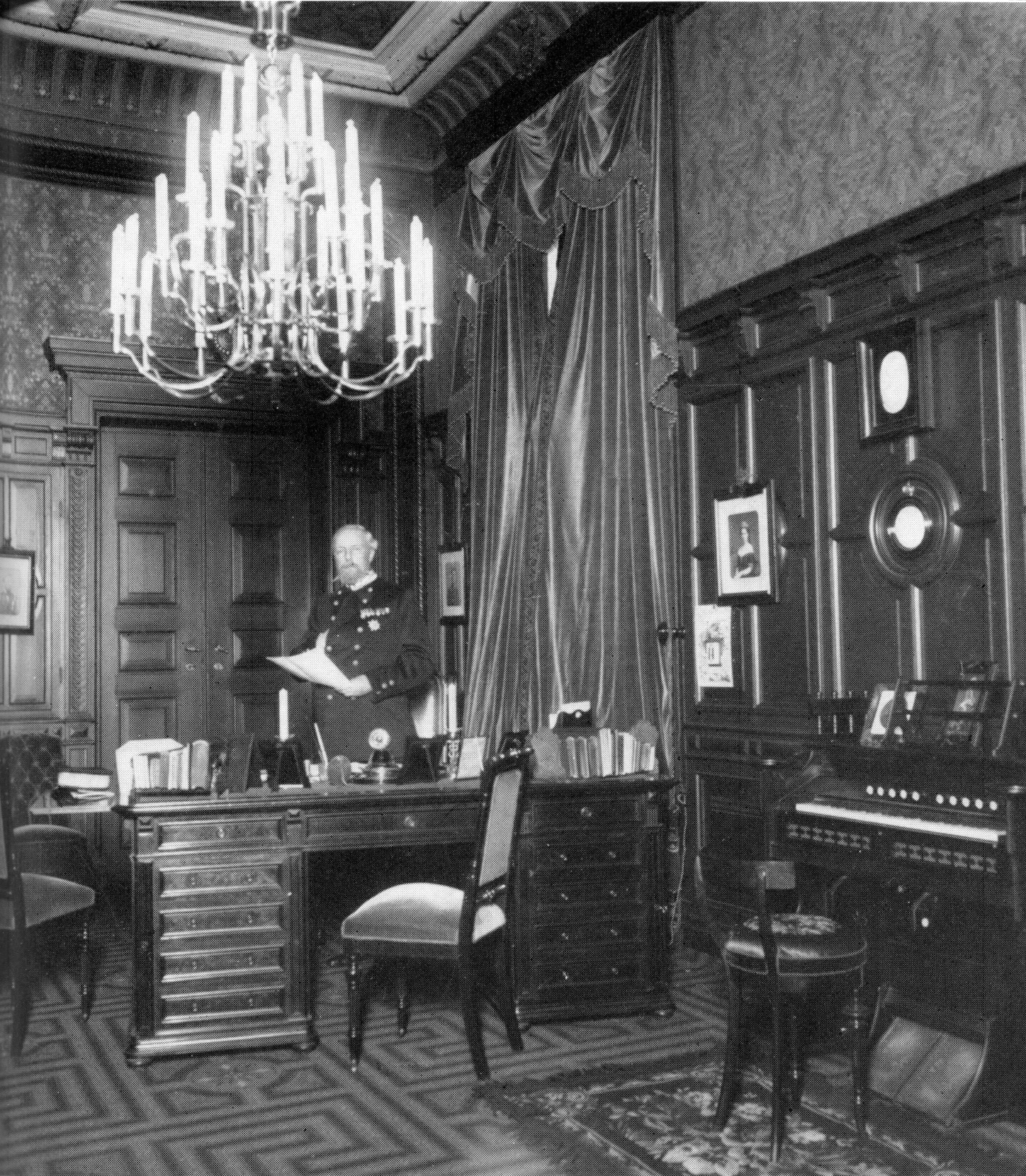 King Oscar II of Sweden in his office in the castle in Oslo.